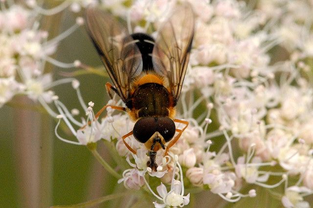 Leucozona glaucia from Commanster, Belgian High Ardennes .